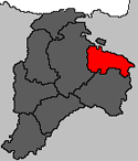 Province of Logroño within Old Castile.